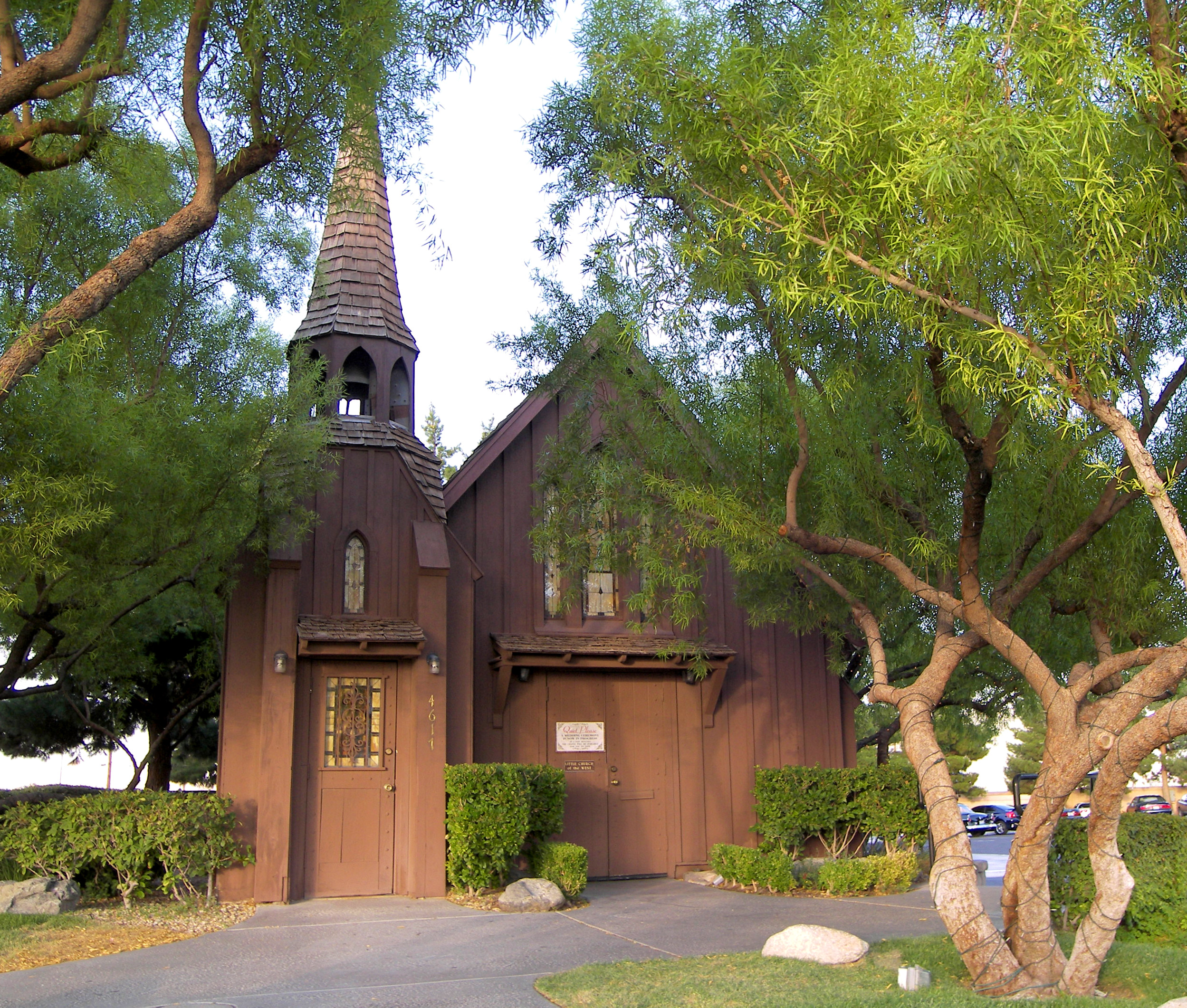 The Little Church of the West located in Paradise, Clark County, Nevada. The structure was added to the National Register of Historic Places in Clark County, Nevada in 1992.